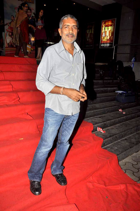 Prakash Jha at the special screening of 'Bol Bachchan'